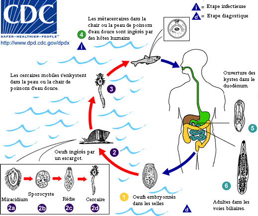 The life cycle of en: Opisthorchis felineus . Opisthorchis_LifeCycle(French_version).GIF Traduction en français des légendes de l’image suivante : Opisthorchis_LifeCycle.GIF Obtained from the CDC Public Health Image Library. Image credit: CDC/Alexander J. da Silva, PhD/Melanie Moser (PHIL #3378), 2002.